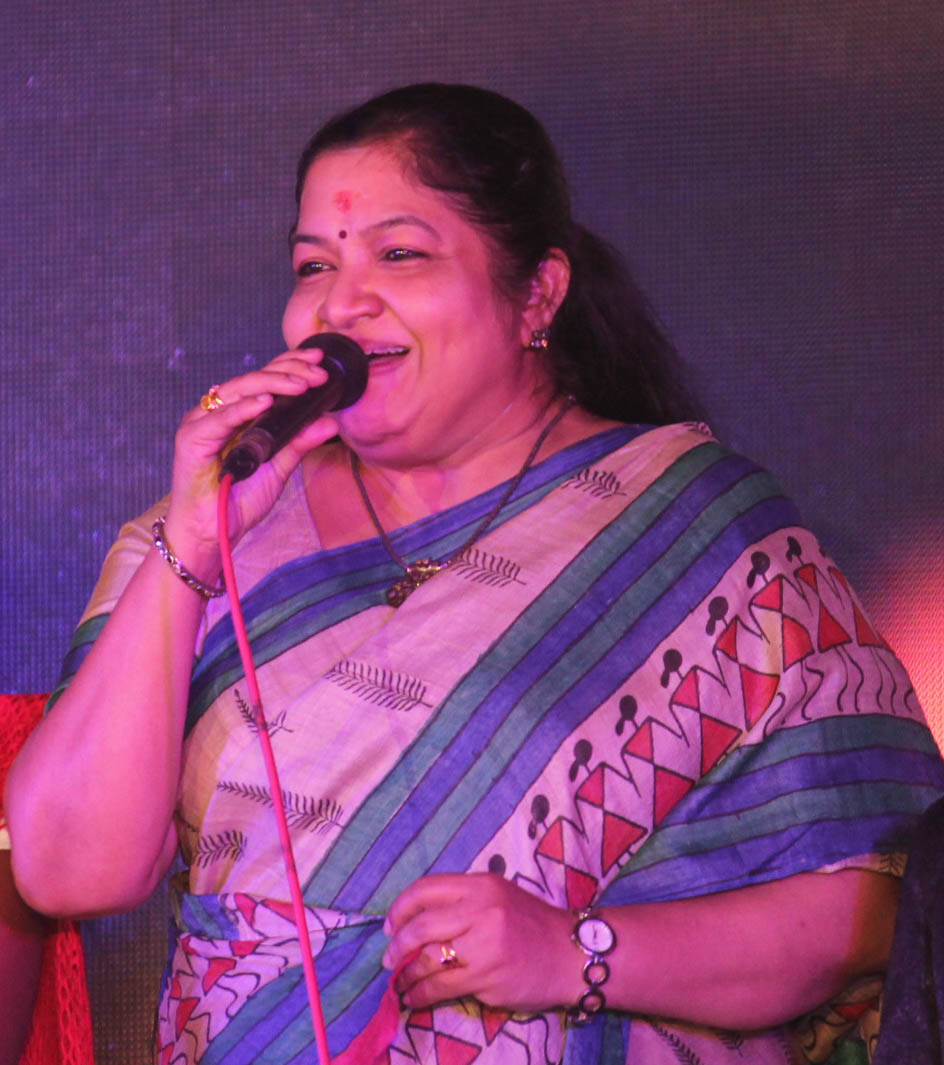 K.S. Chithra at a function at Kodungalloor